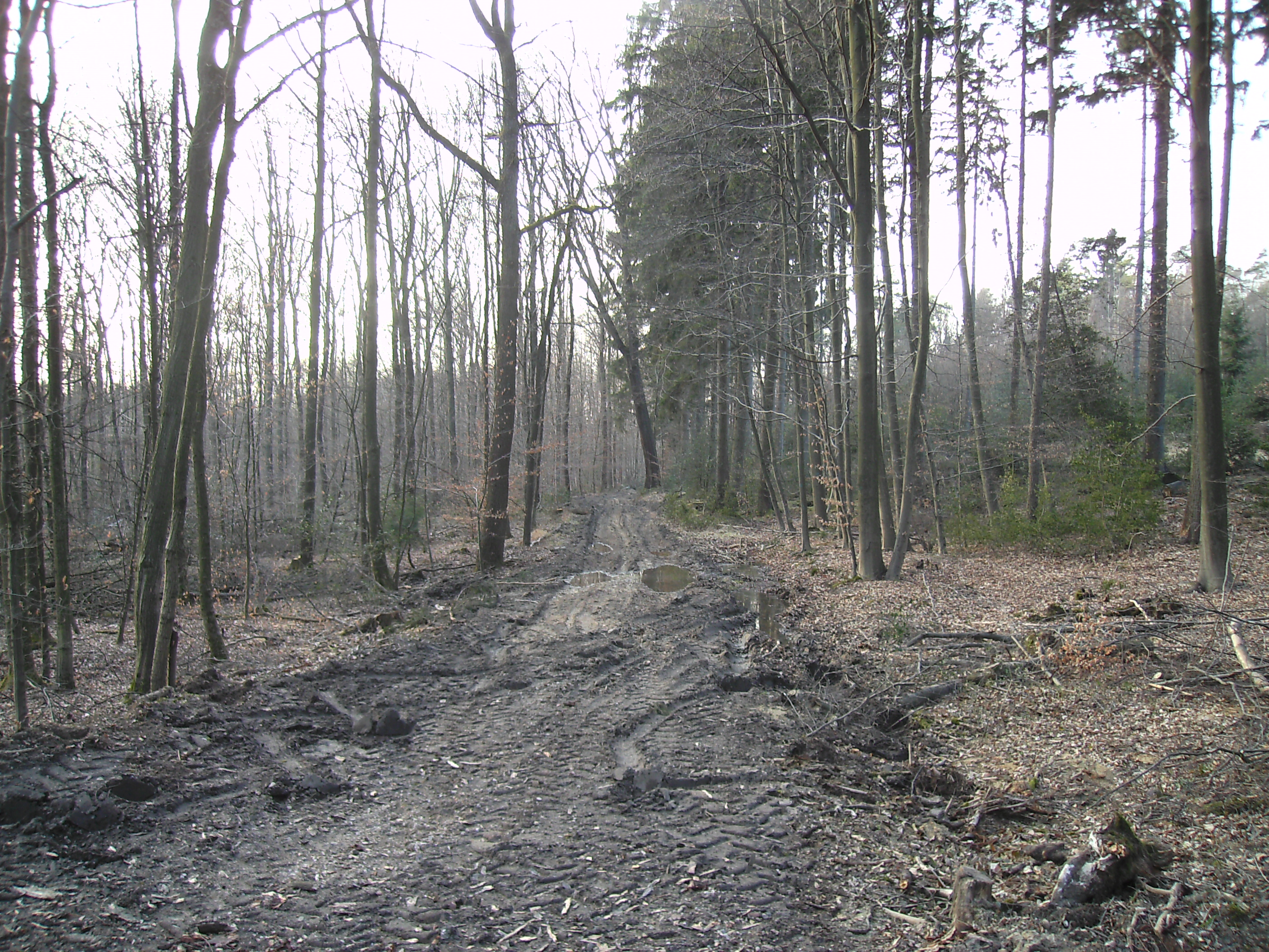 Way to Schwiegelshohn, Germany